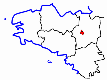 Description: Map for localisazion of cantons of Bretagne region in France Source: made by Hervé Tigier from another large map